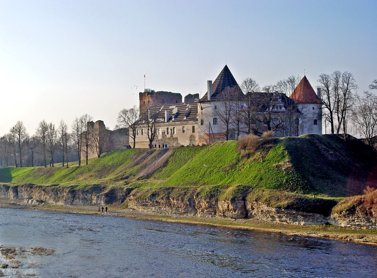 Bauska Castle from the opposite bank of Mūša River, Latvia.